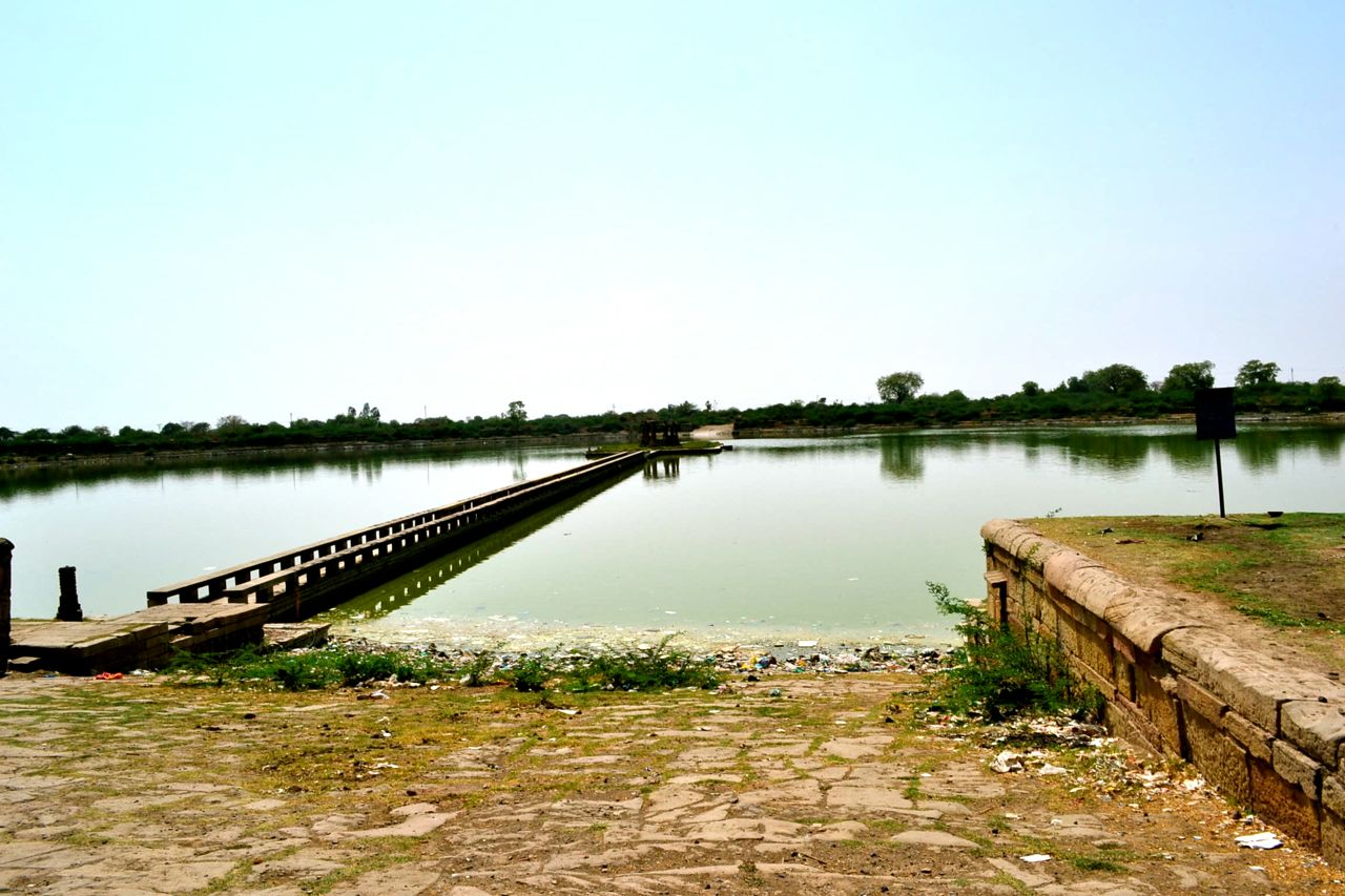 Malav Tank